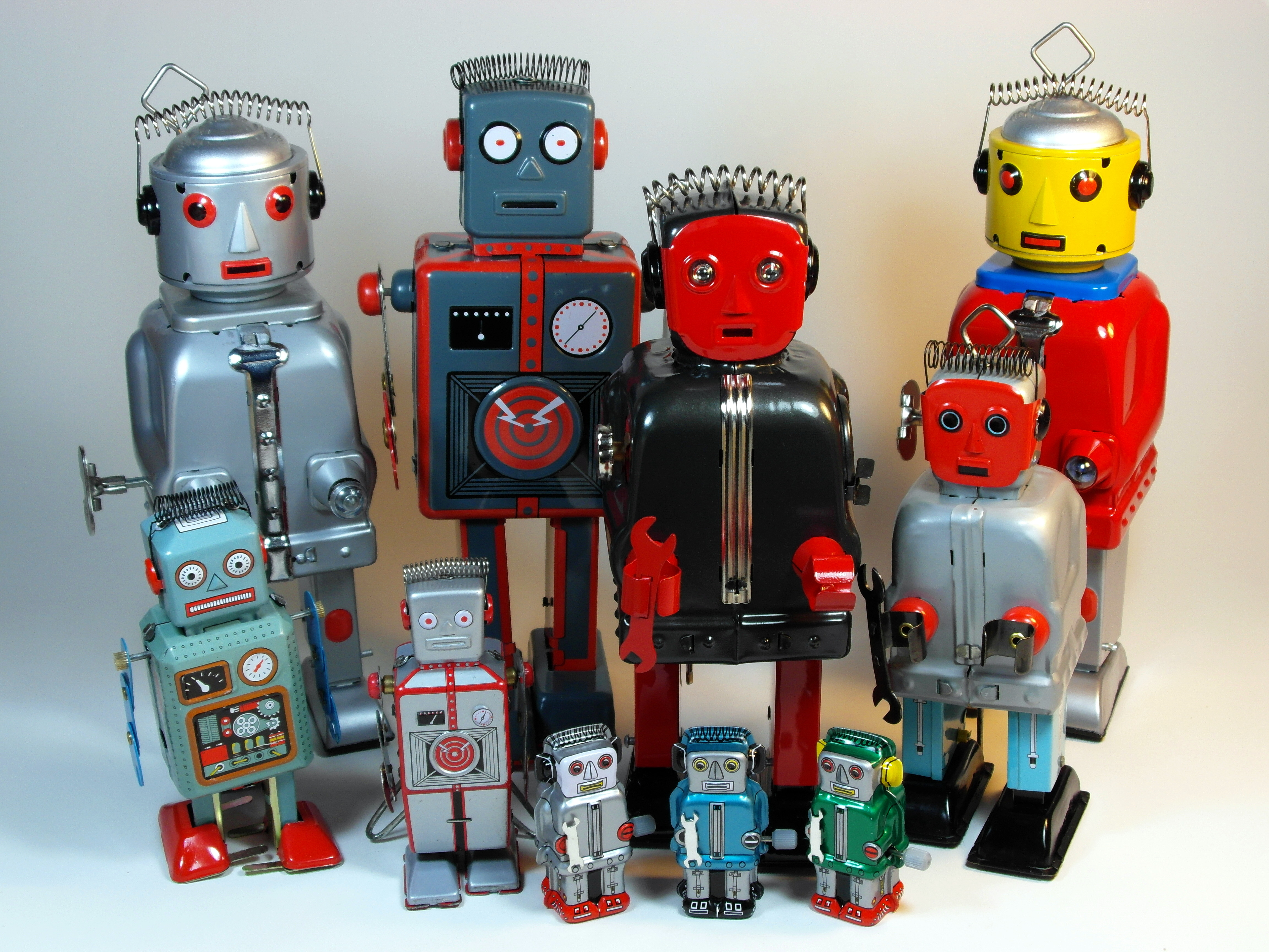 More pictures of My Toy Museum's at Flickr. Most of those toys do still have copyrights so i can't publish them here!